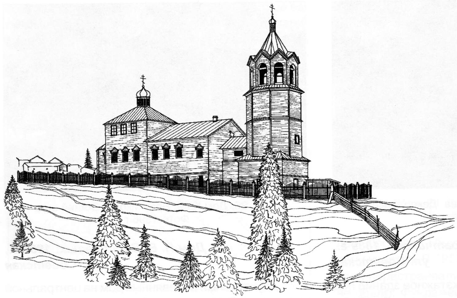 Church of Biserovo